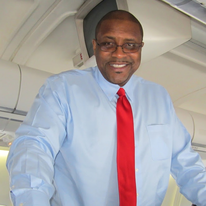 Tyrone Keys on the plane with 1985 Chicago Bears on their way to visit the White House.